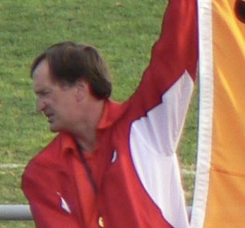 John Dimmer celebrates after winning the 2005 WAFL premiership